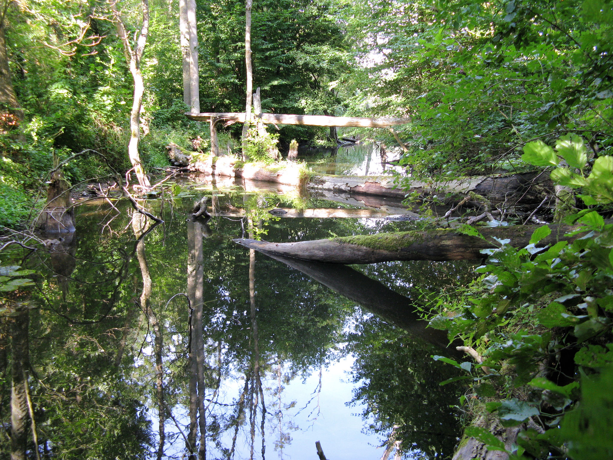 Mühlengraben in Speck, disctrict Müritz, Mecklenburg-Vorpommern, Germany